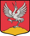 Coat of arms of Smārdes pagasts, Latvia